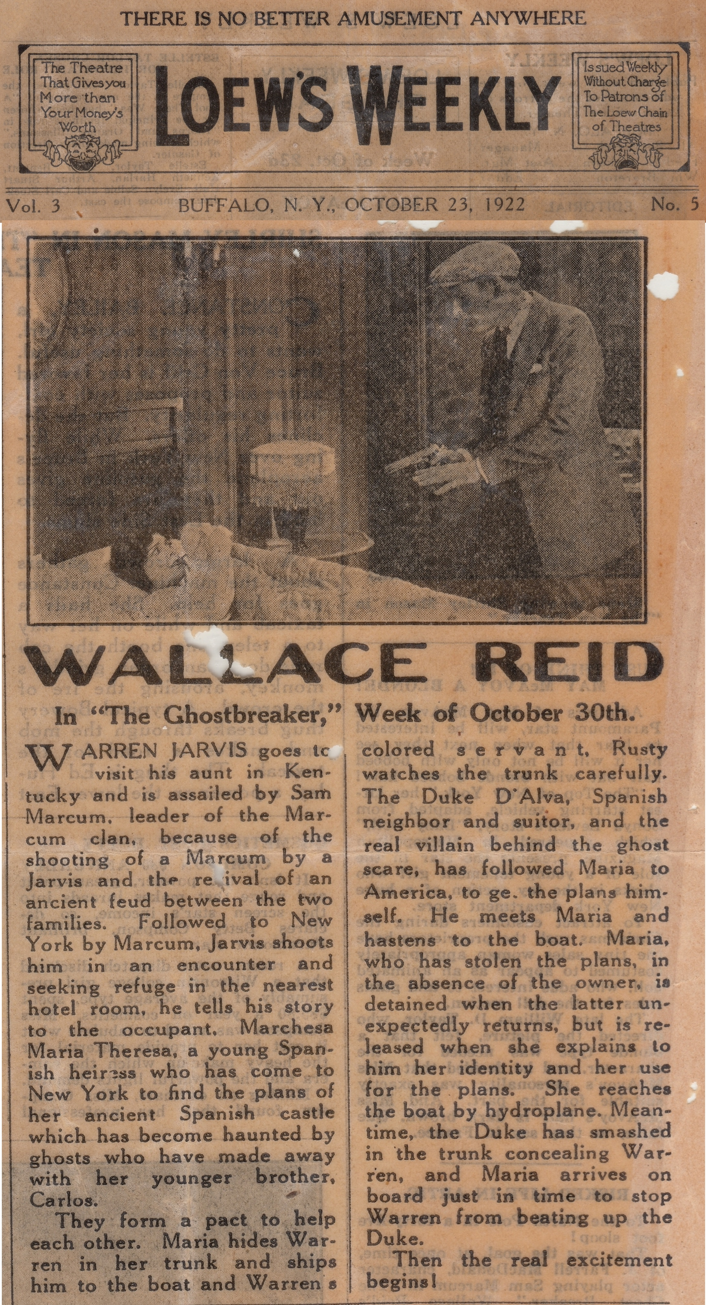 Promotional material for 1922 film "The Ghost Breaker" starring Wallace Reid. Scanned from an old "Loew's Weekly" program.